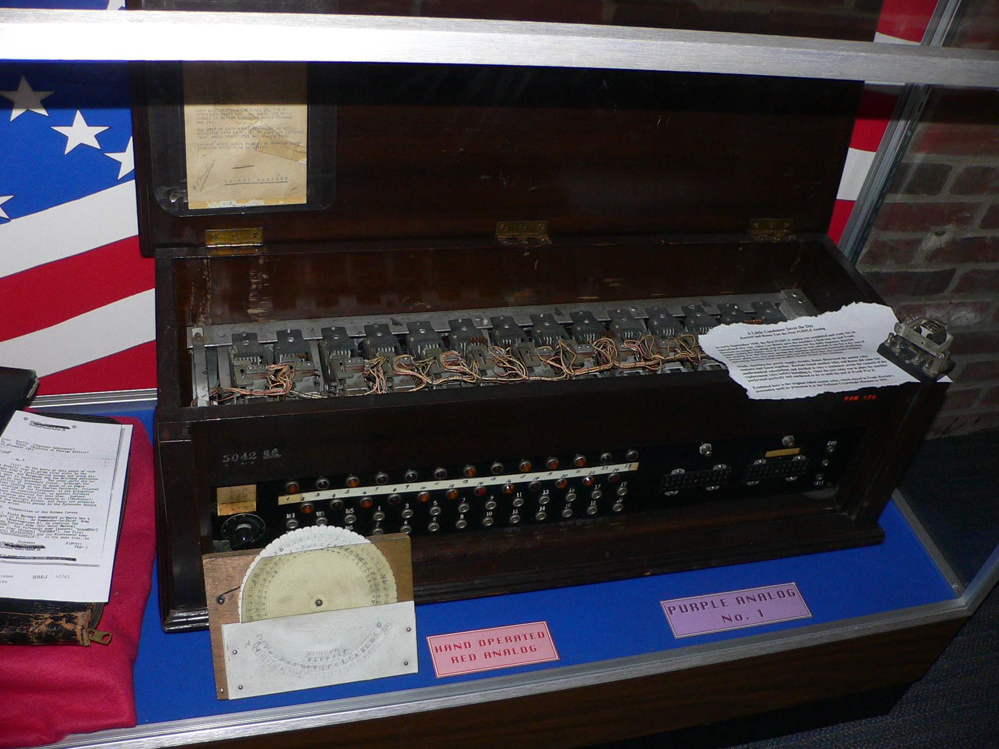 The first analog to the Purple machine (Type B Cipher Machine) reconstructed by the US Signals Intelligence Service. The unit contains fourteen 6x25 steping switches. A hand-operated Red analog is also visible. The note to the right describes how a relay welded shut during the Purple unit's first trial and how adding a capacitor fixed the problem. (Pictures taken by Mark Pellegrini at the US National Cryptologic Museum.)